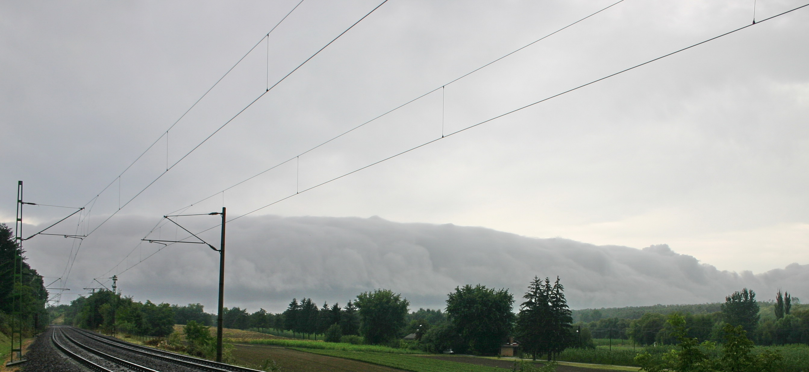 Overhead catenary on the Budapest–Újszász–Szolnok railway line between Gyömrő and Mende stations, Hungary. (25kV, 50Hz)